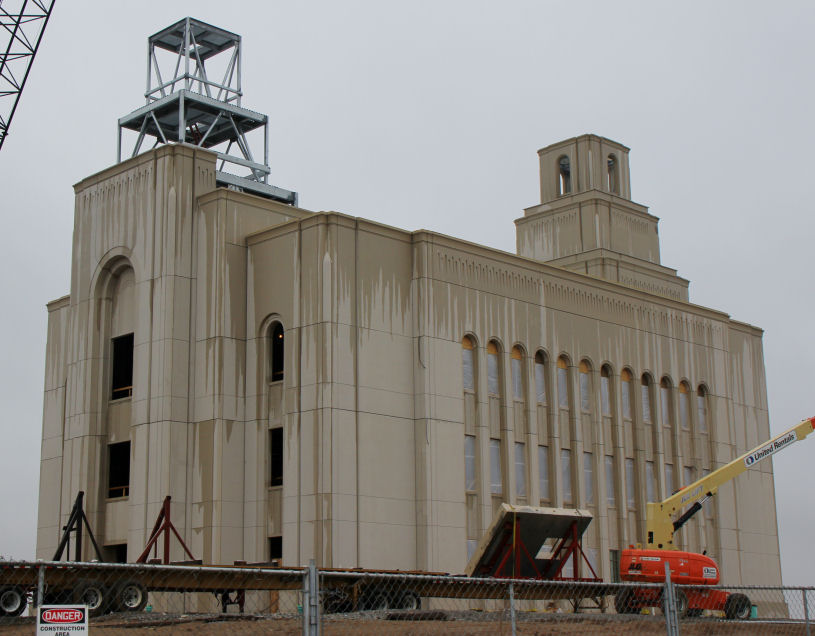 Photo of the construction of the Kansas City Missouri Temple, a temple of The Church of Jesus Christ of Latter-day Saints (LDS Church) in the Greater Kansas City area.